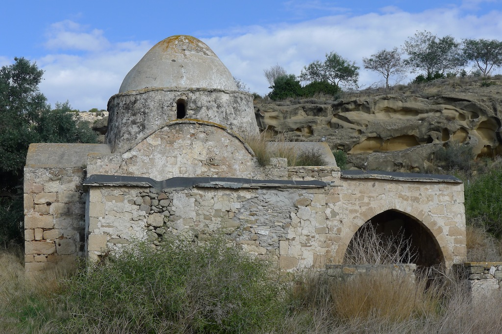 Panagia Kyra, Cyprus.